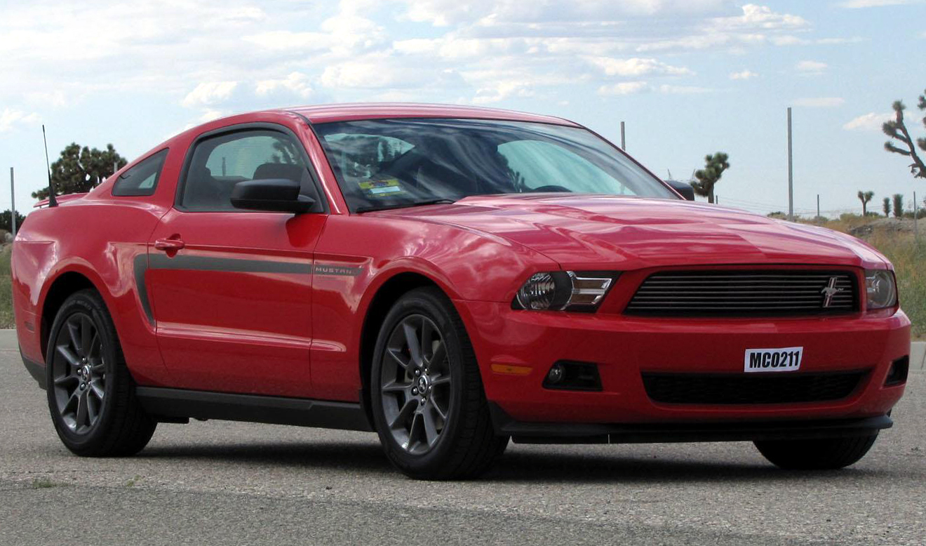 2012 Ford Mustang photographed in USA.